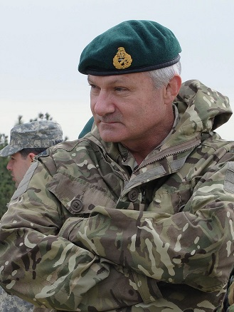 British Royal Marine Lt. Gen. Gordon K. Messenger, deputy commander of NATO's Allied Land Command (center) speaks with 1st Brigade Combat Team, 82nd Airborne Division's 2nd Battalion, 501st Parachute Infantry Regiment, commander, Lt. Col. Mark Purdy (left), and a Royal Netherlands Army, 11th Airmobile Brigade, leader during a joint air assault training exercise between the two units. Lt. Gen. Messenger visited Fort Bragg, N.C., to observe the efforts the two units have made to increase interoperability between allied forces during the month-long partnership.